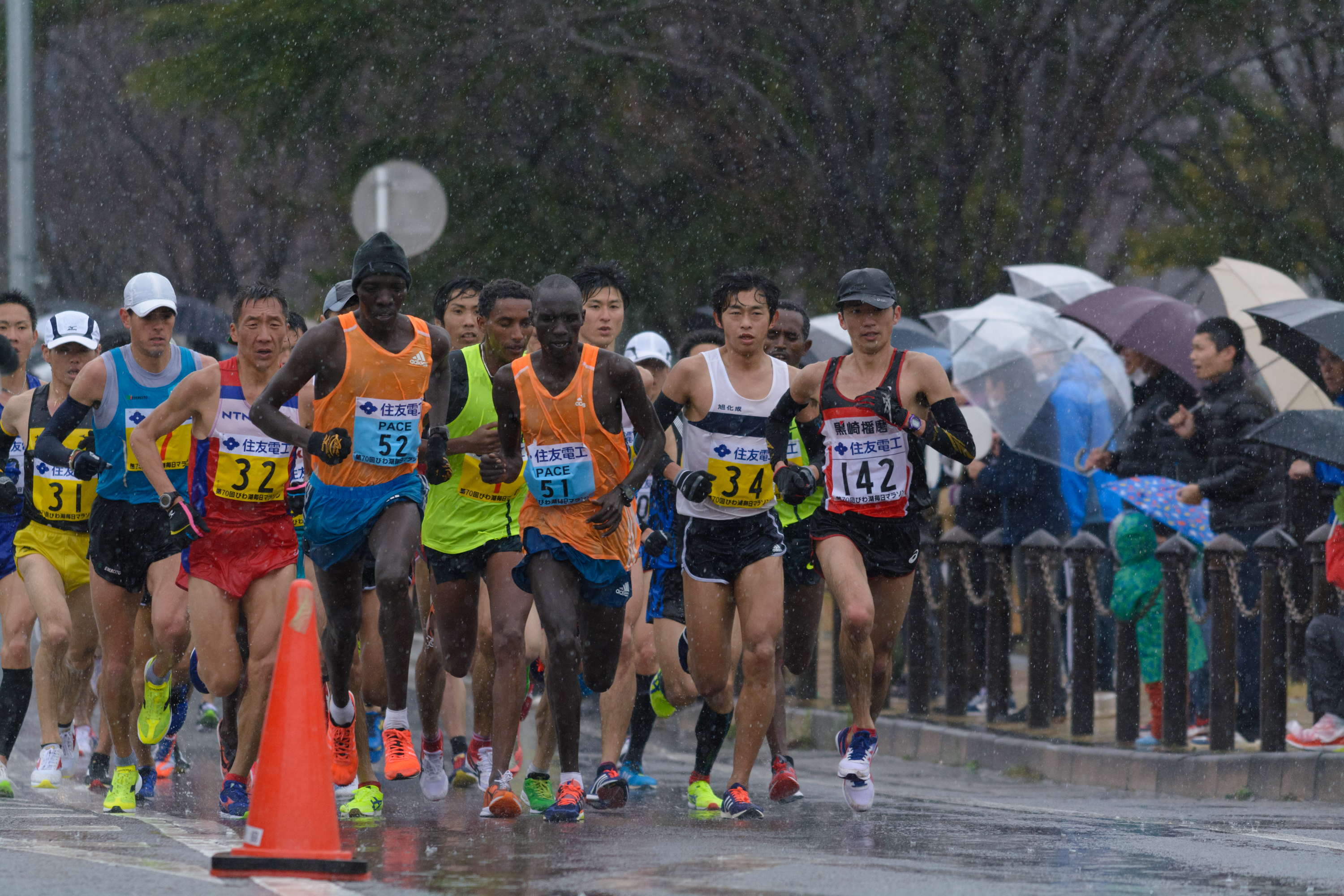 Ser-Od Bat-Ochir (#32) and Bazu Worku (#1) at the 2015 Lake Biwa Marathon.